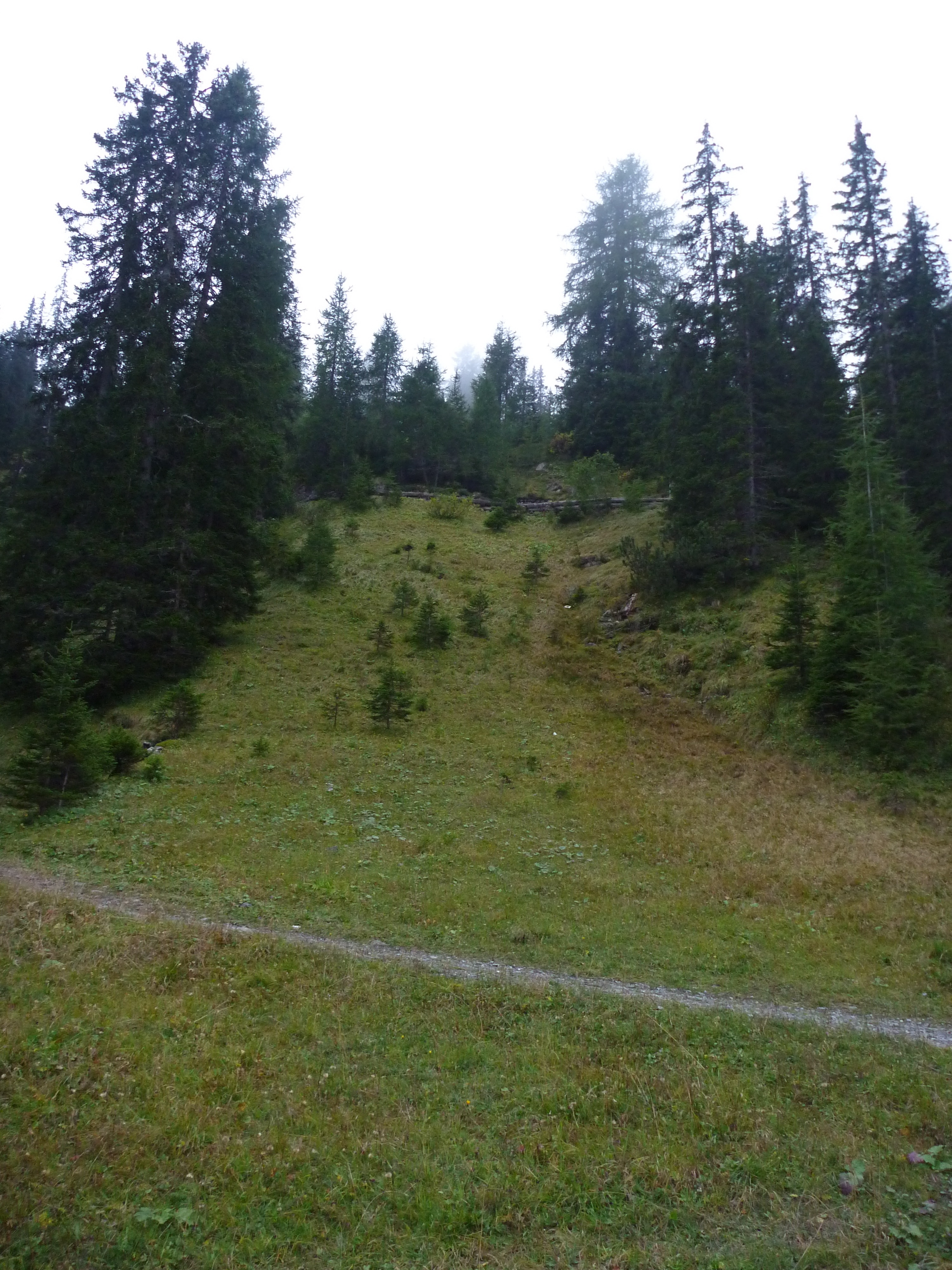 Plessurschnanze, landing area with small landslide (right)